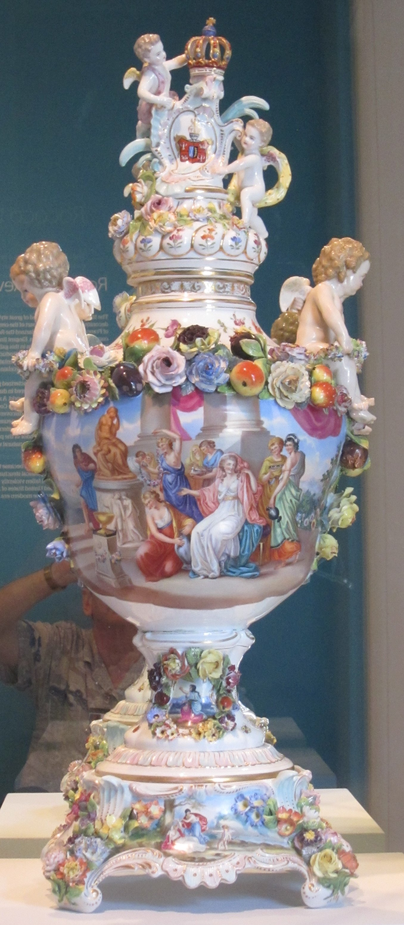 Monumental three-part vase, c. 1875-90, manufactured by the firm of Carl Thieme at Potschappel, Germany, hard-paste porcelain, Honolulu Museum of Art